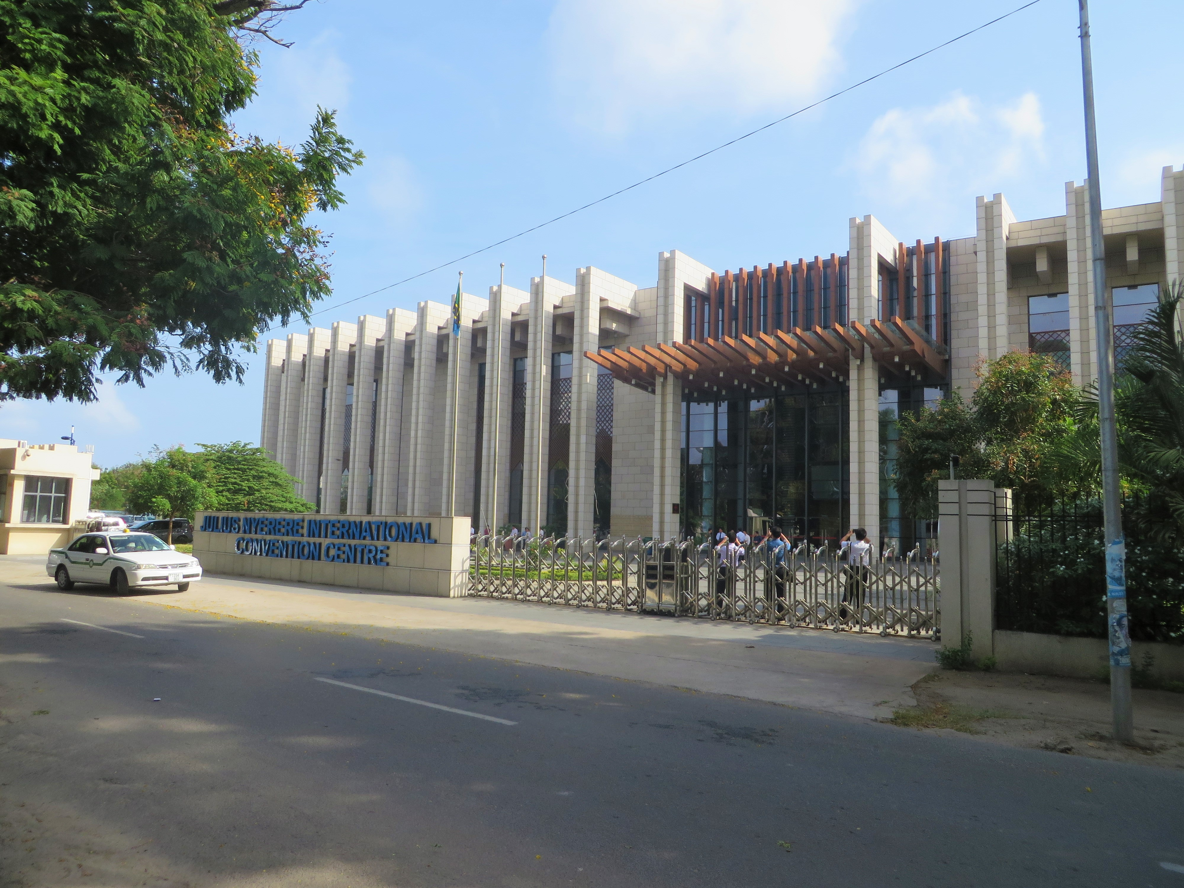 The front view of Julius Nyerere International Convention Centre in Dar es Salaam